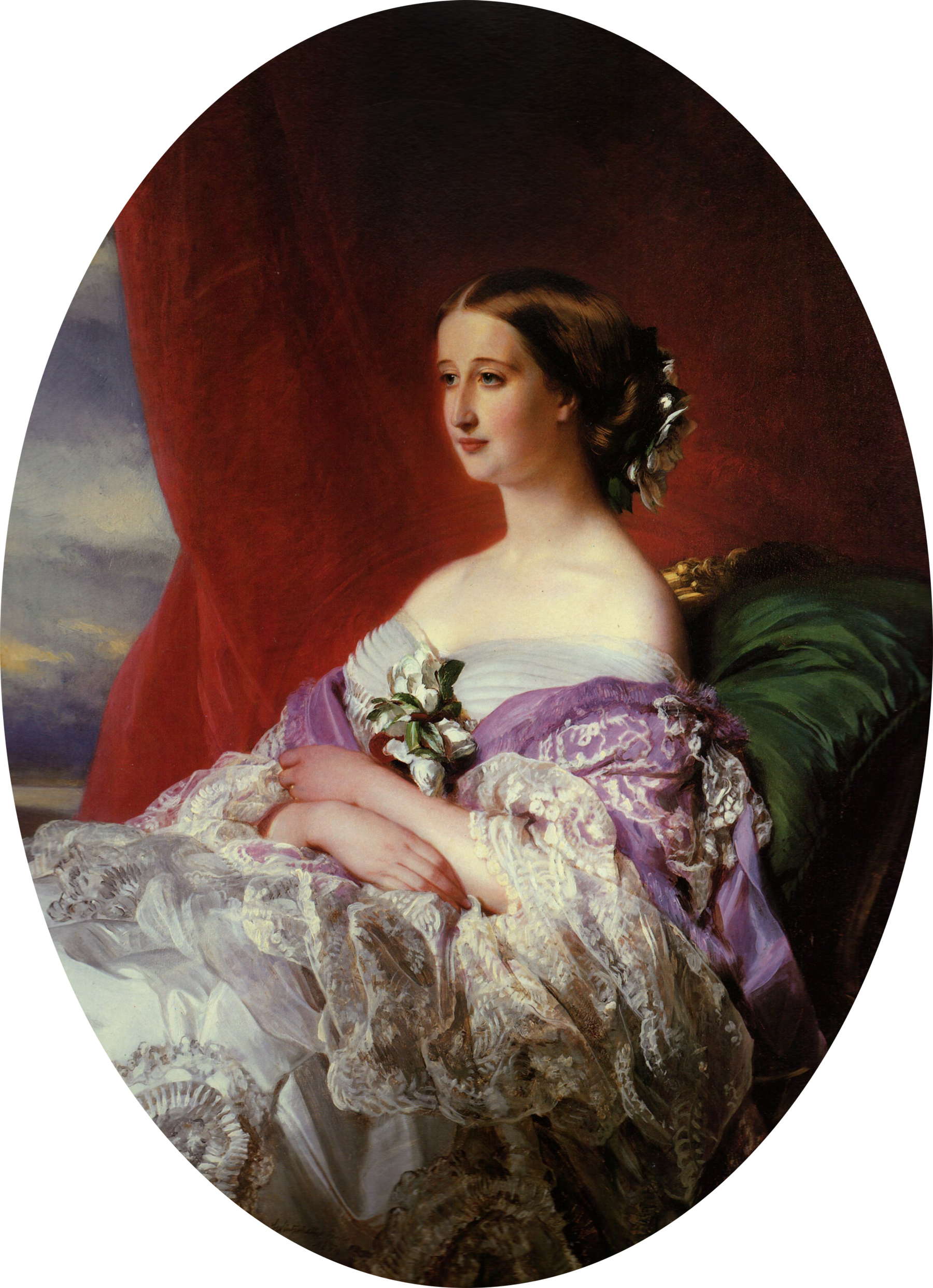 Empress Eugénie